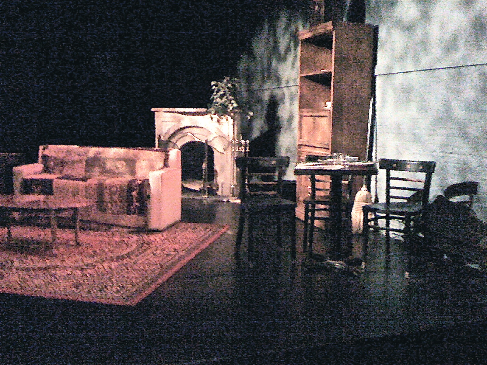 The set of The Invention of the Living Room, by Andrew R. Heinze. HB Studio, NYC (2009)